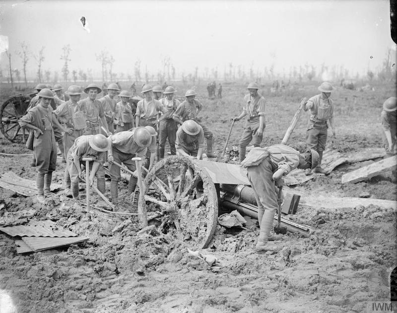 The Battle of Passchendaele, July-november 1917 Royal Field Artillery gunners digging an 18 pounder gun out of the mud. Near Zillebeke, 9 August 1917.